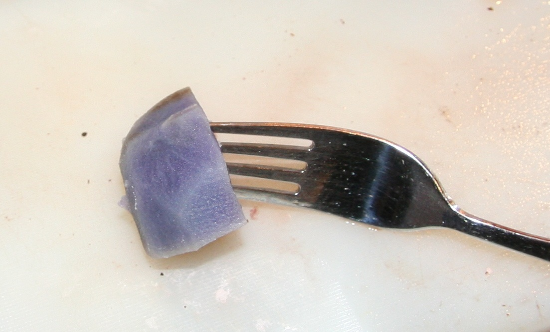 Cooked potato of Blue Kongo variety